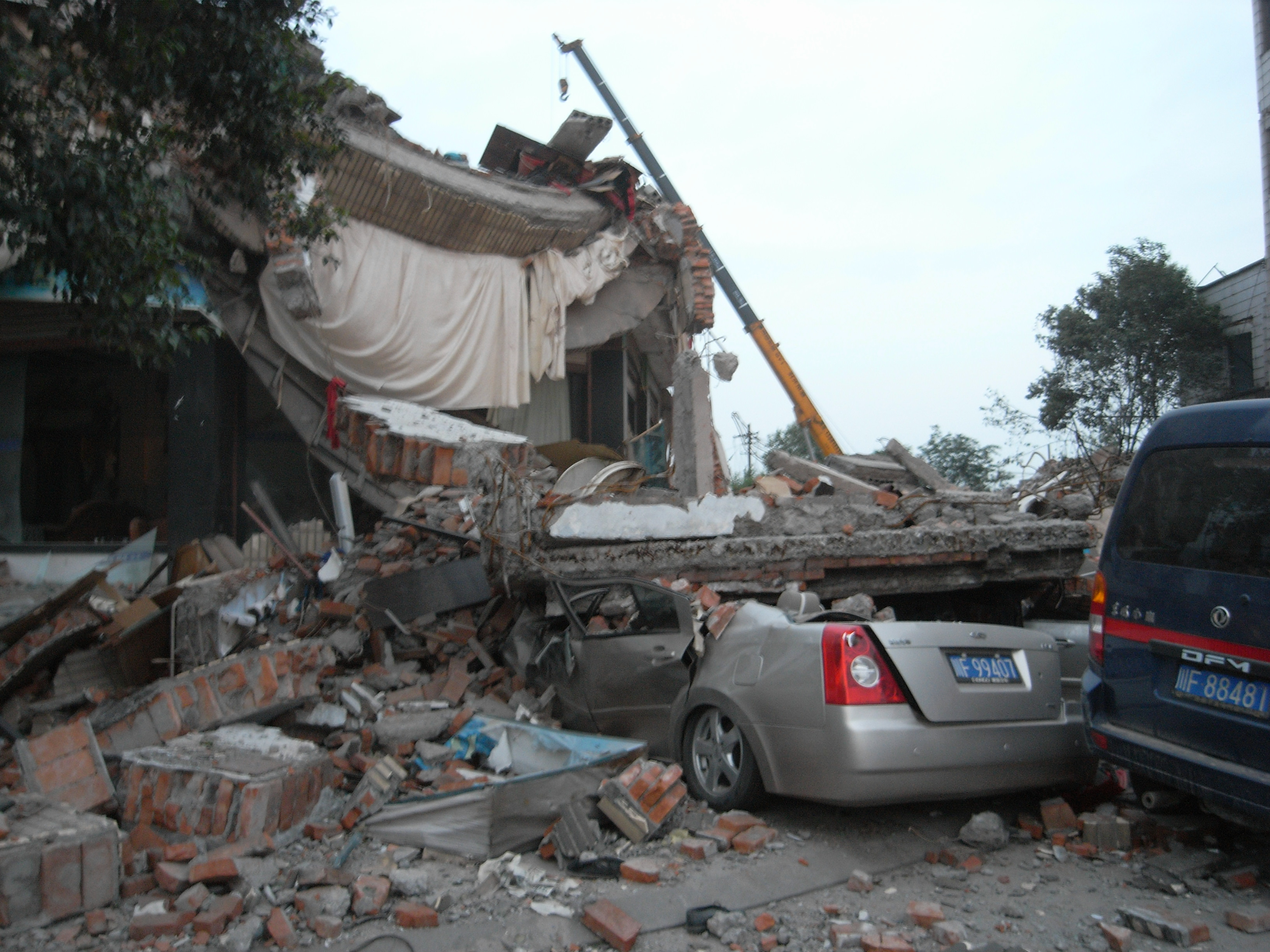 四川綿竹市漢旺鎮截至2008年5月16日已發掘出逾四千副屍體，全場受極大破壞，大量房屋倒毀。The earthquake devastated most buildings in Hanwang, Sichuan.